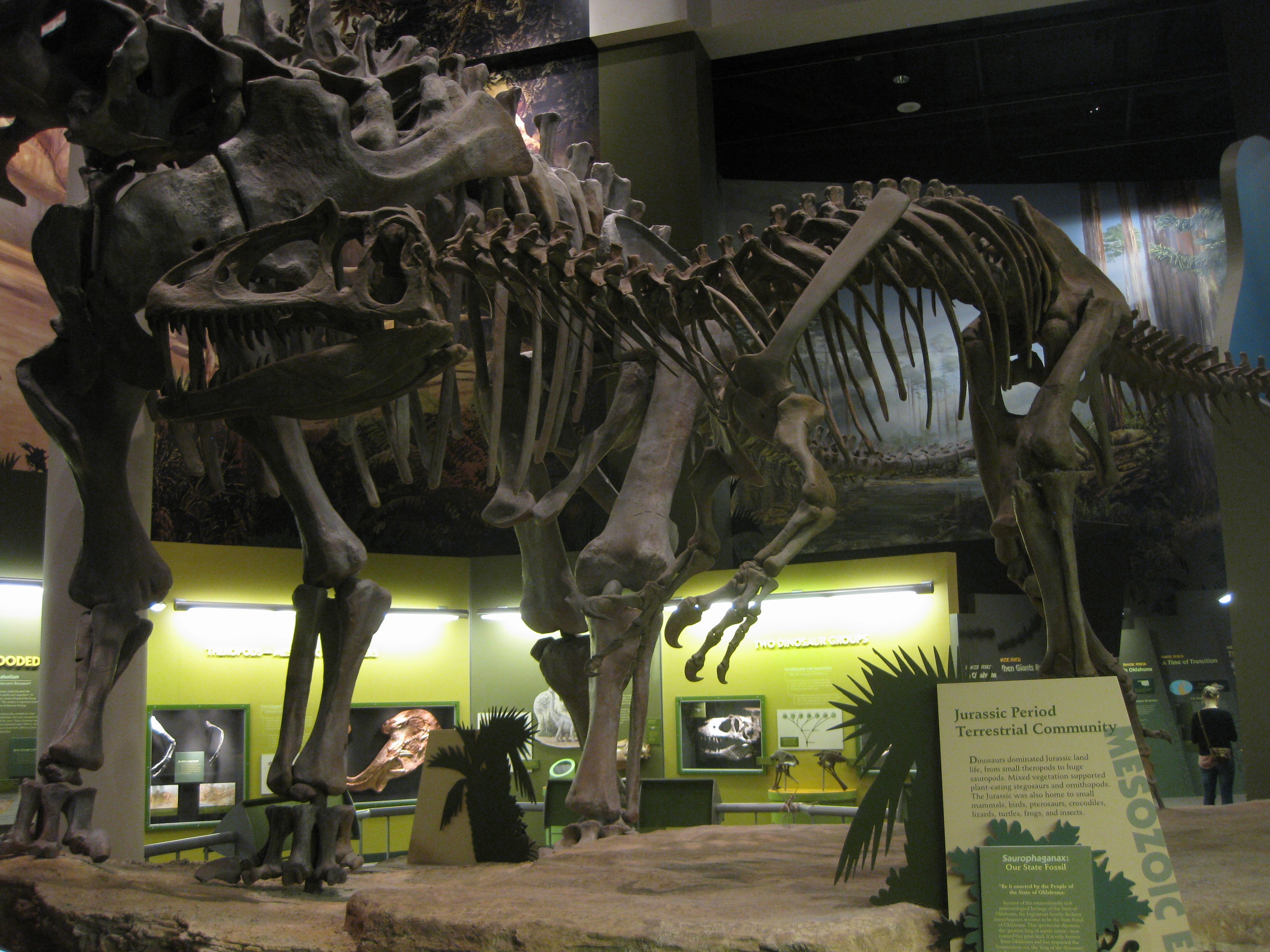 Sam Noble Oklahoma Museum of Natural History, Norman, Oklahoma